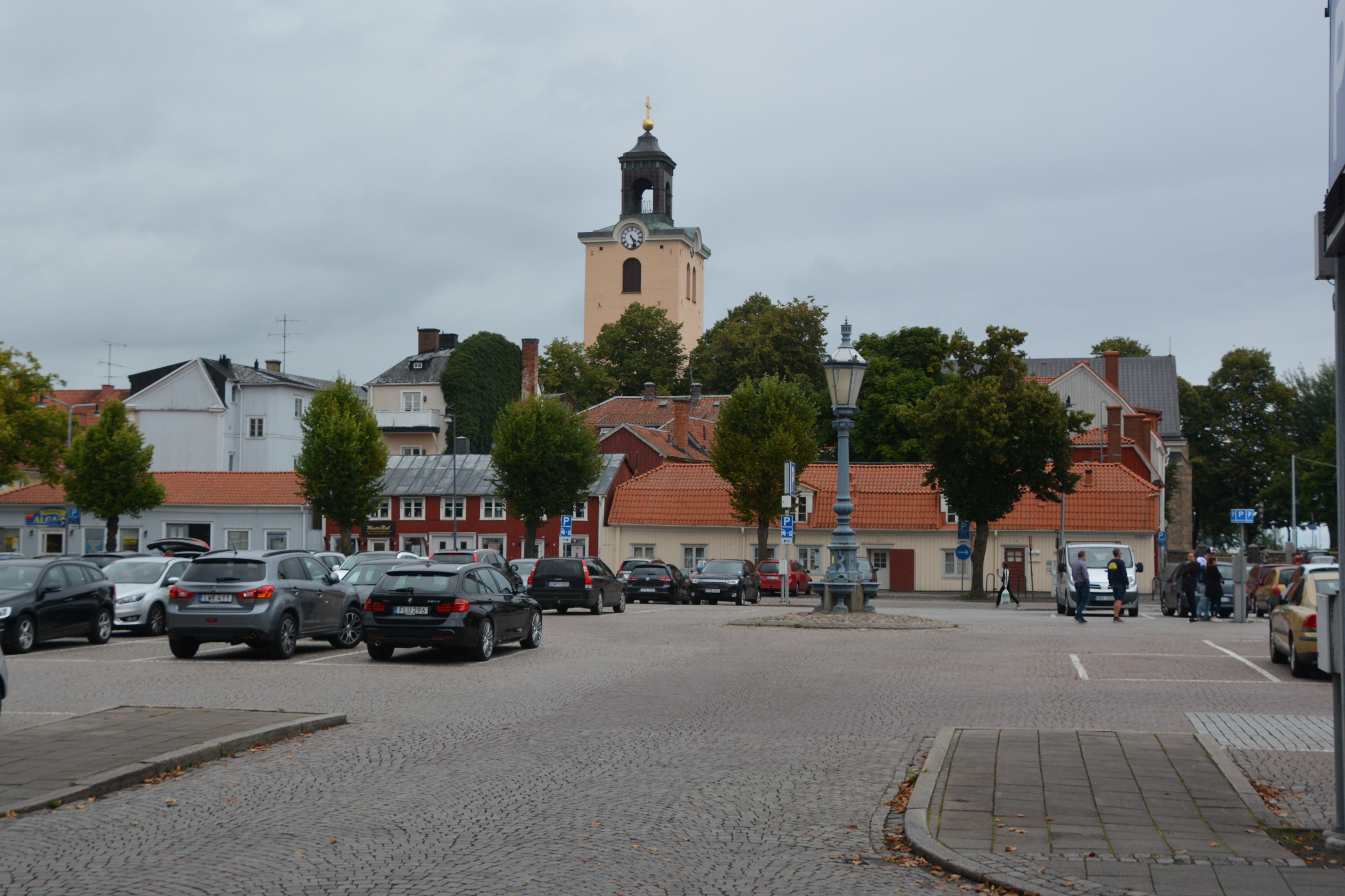 Östra torget i Jönköping. mot Kristinakyrkan